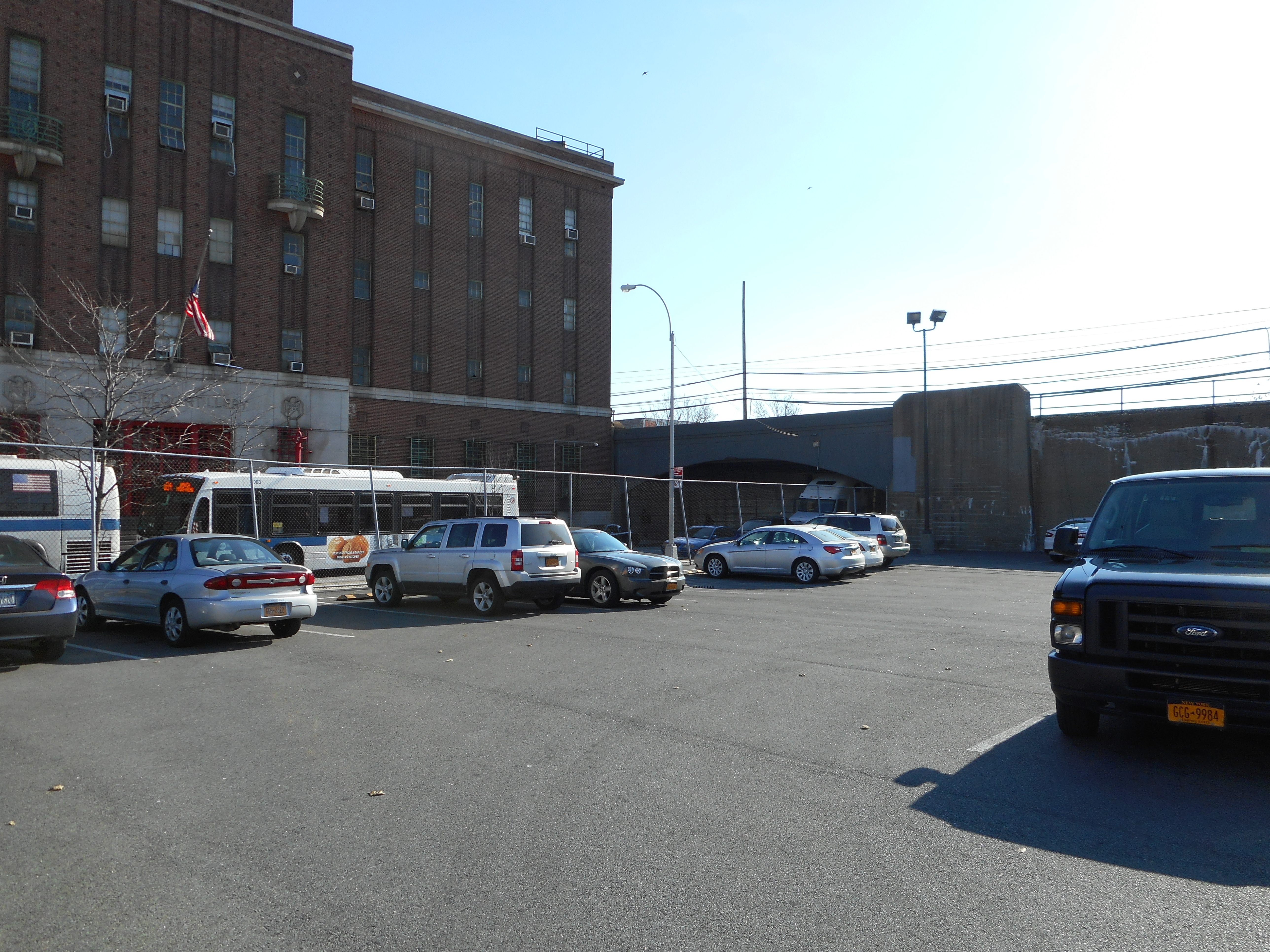 The former site of the Canal Street LIRR station above 168th Street and the 104th Field Artillery Armory building in Jamaica, Queens, New York City, as seen from a supermarket parking lot.